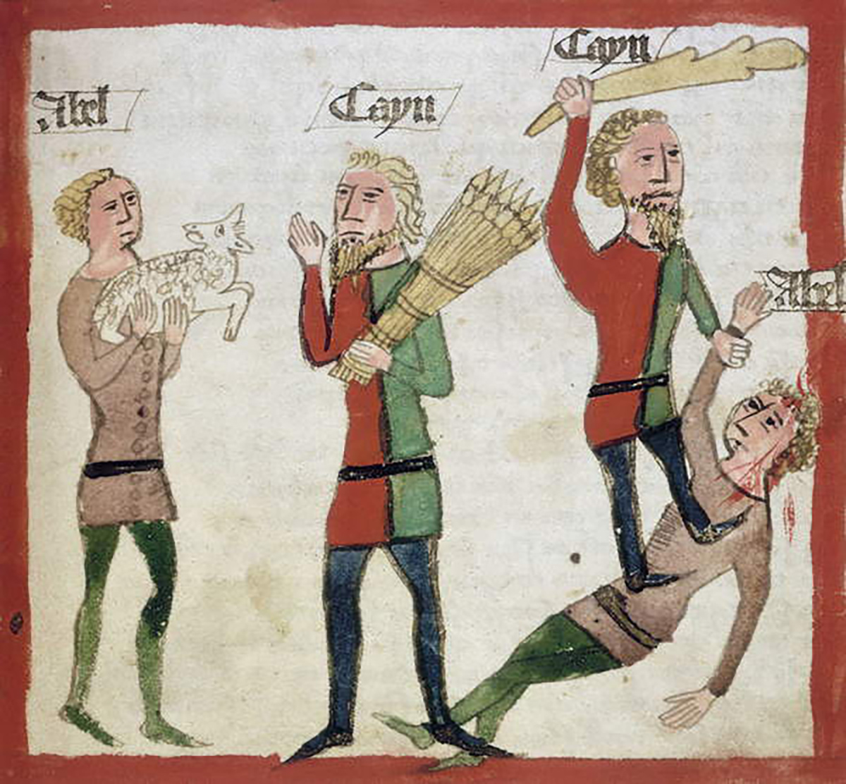 Cain and Abel with offerings; Cain killing Abel.